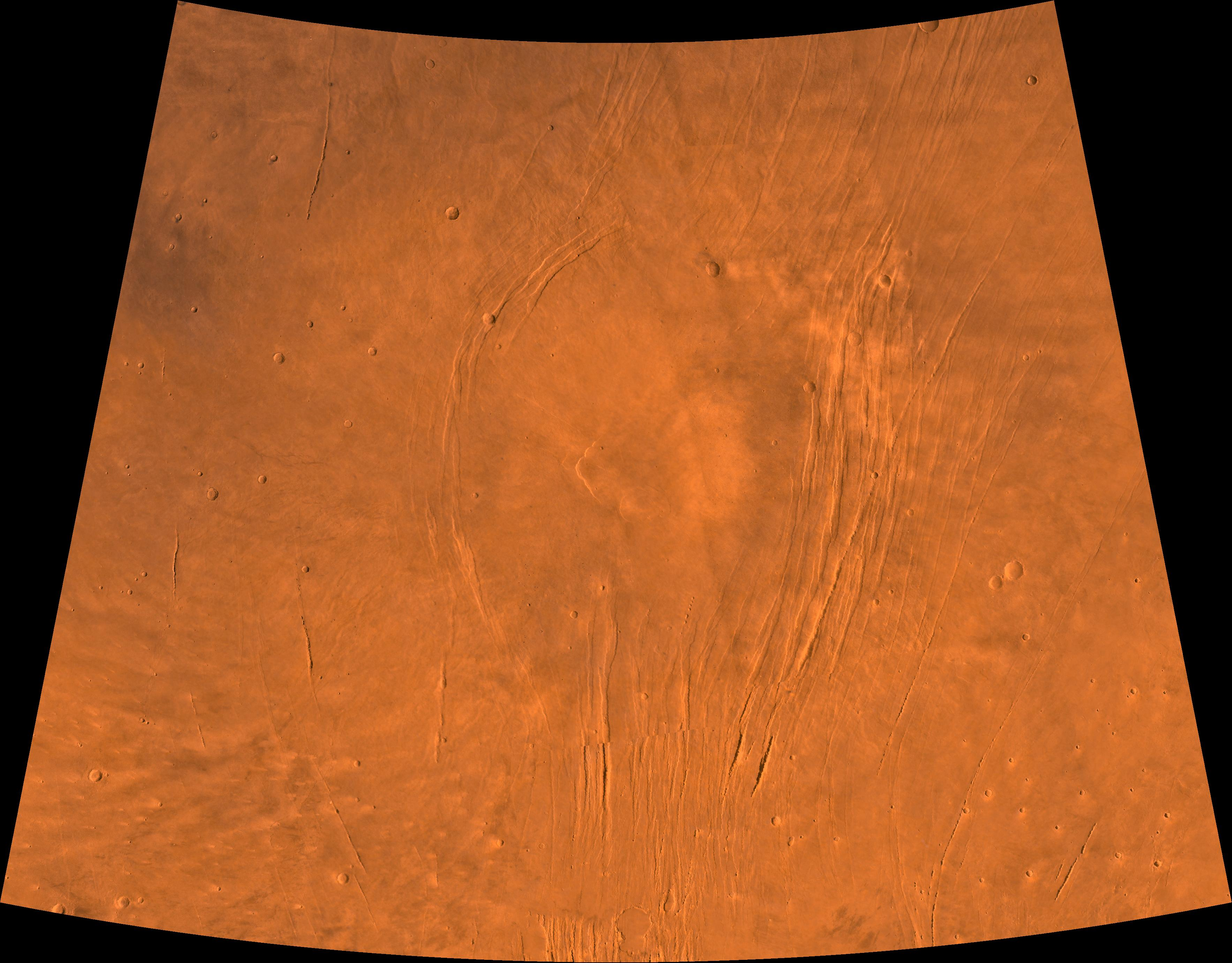 Shield vulcano Alba Mons on Mars